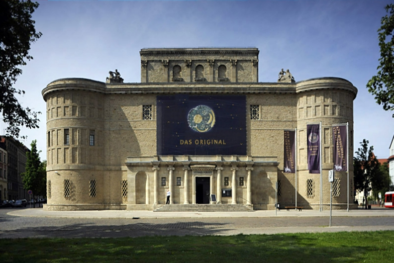 Building of Landesmuseum für Vorgeschichte Sachsen-Anhalt in Halle, Germany